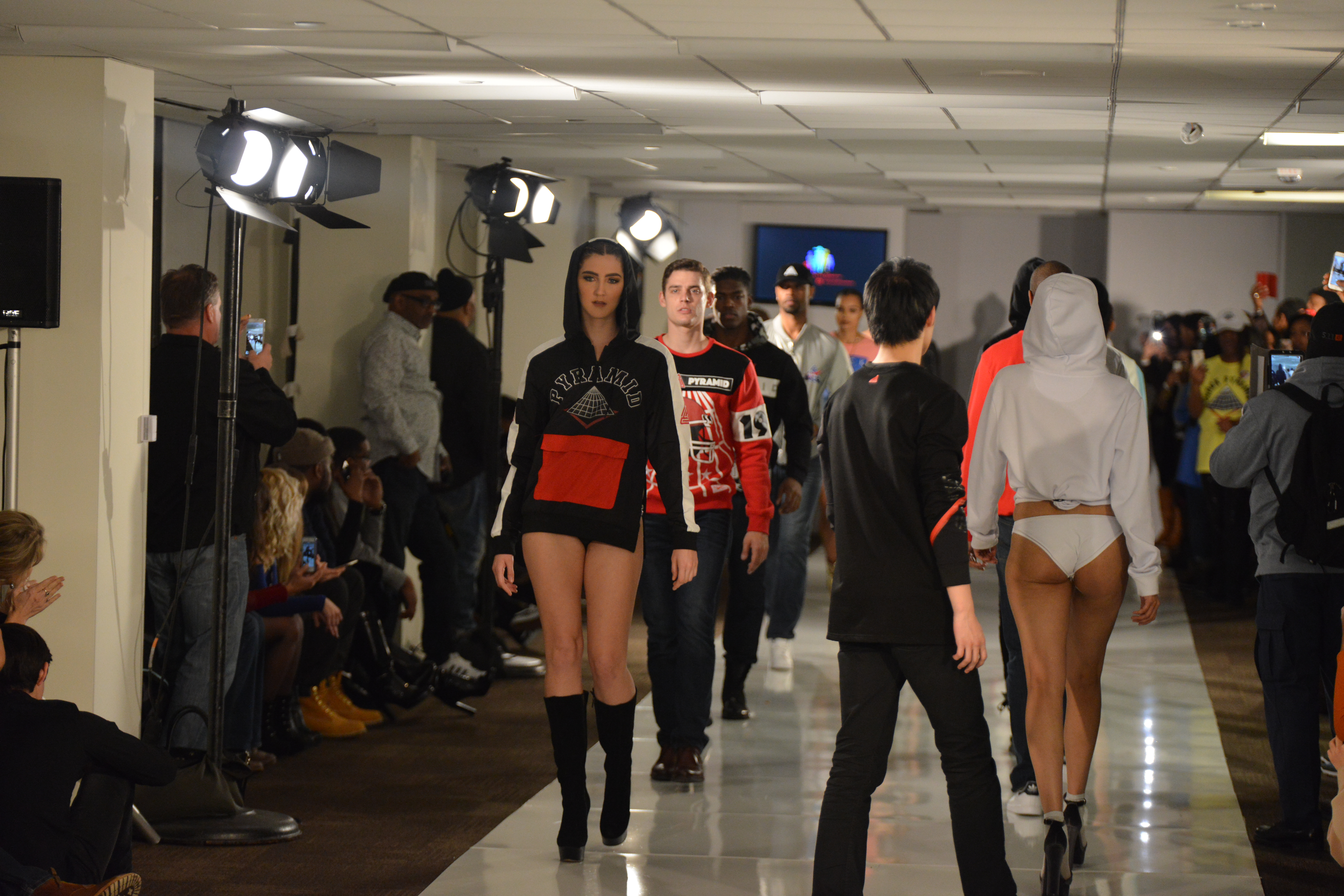 Crystal Couture Fashion Show & Sale